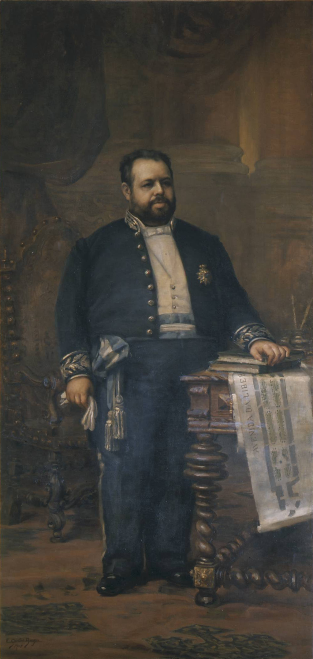 José Gregório da Rosa Araújo (1840-1893), Mayor of Lisbon.